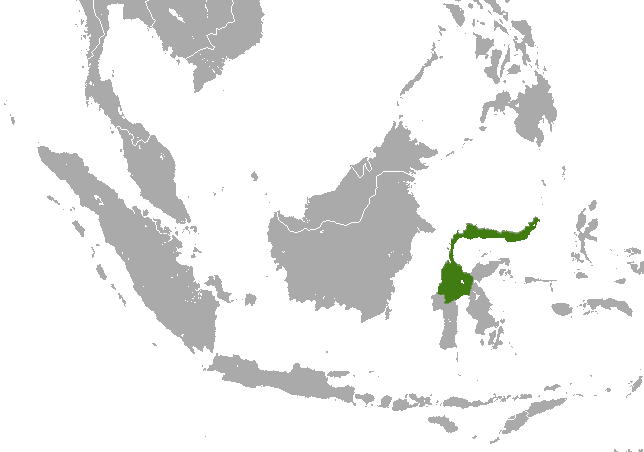 Black-footed Shrew (Crocidura nigripes) range